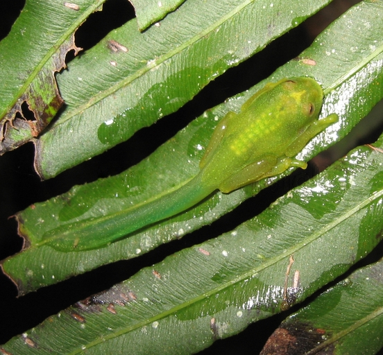 Hyalinobatrachium eurygnathum